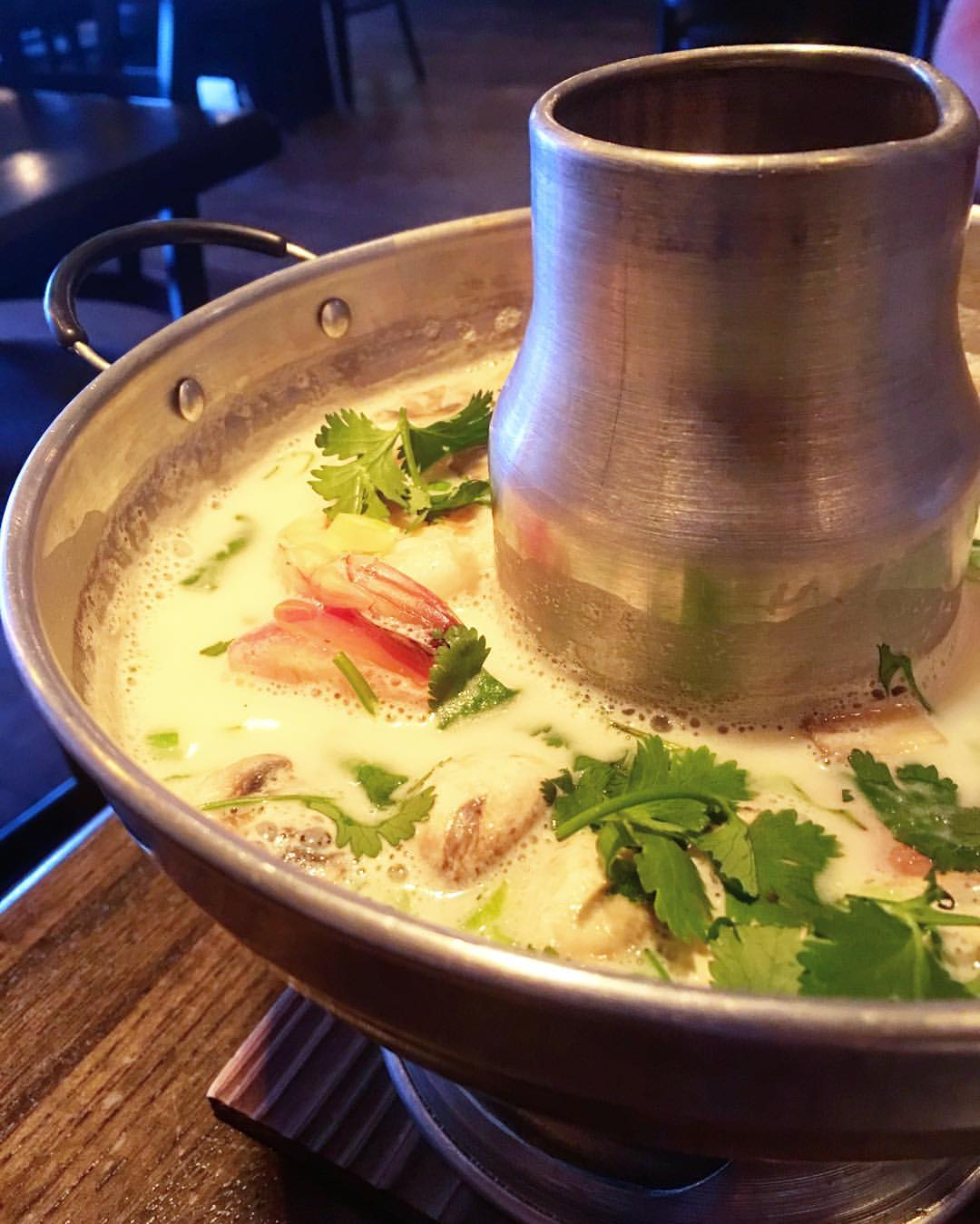 This was lunch yesterday. It is the the coconut curry shrimp TomKha soup from Zen Asian BBQ. A fantastic white savory coconut broth with shrimp, mushrooms, tomatoes, cilantro, and green onions, brought out in a self heated trough platter that stays lit un